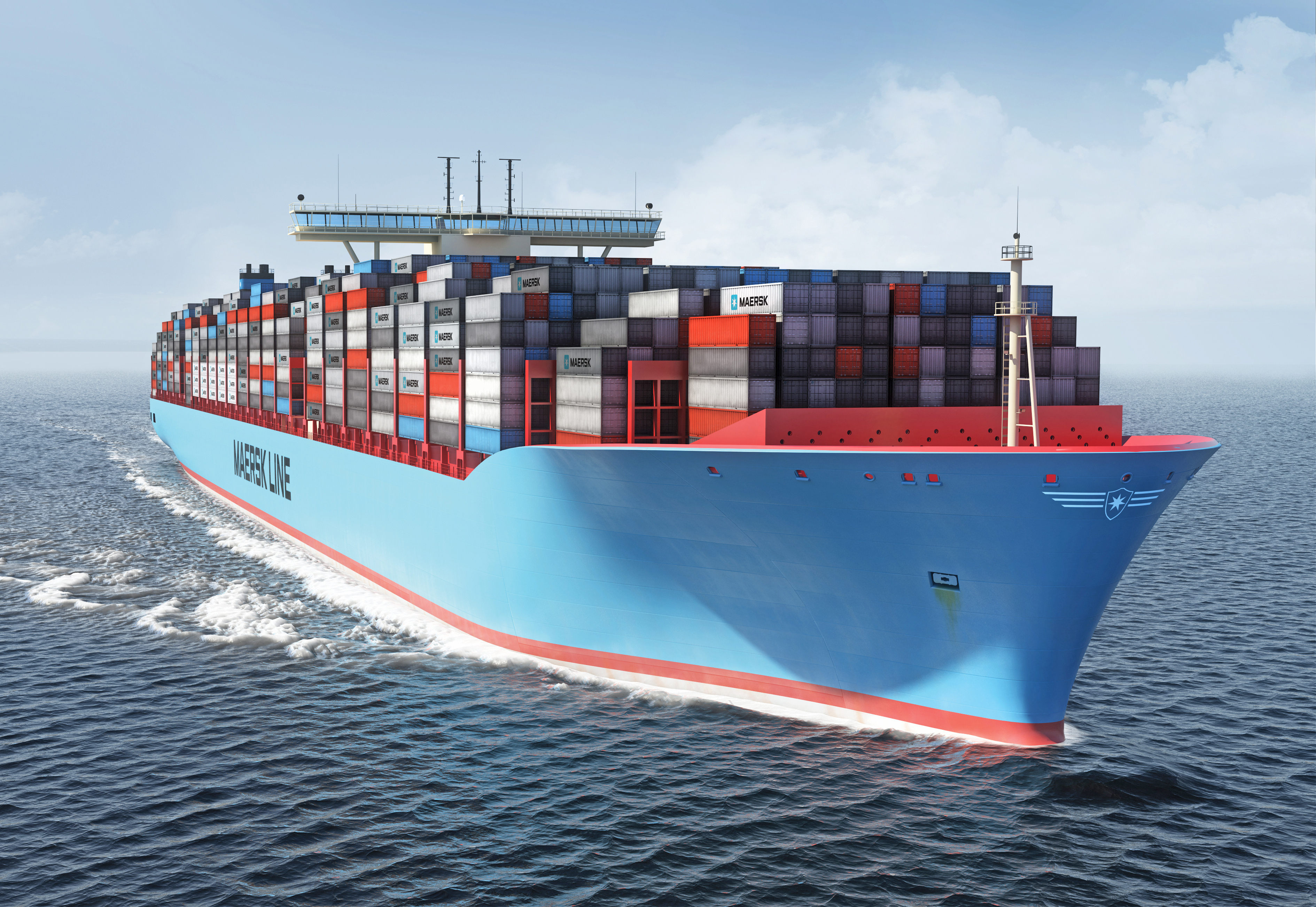 Computer generated image of the Mærsk Triple E Class